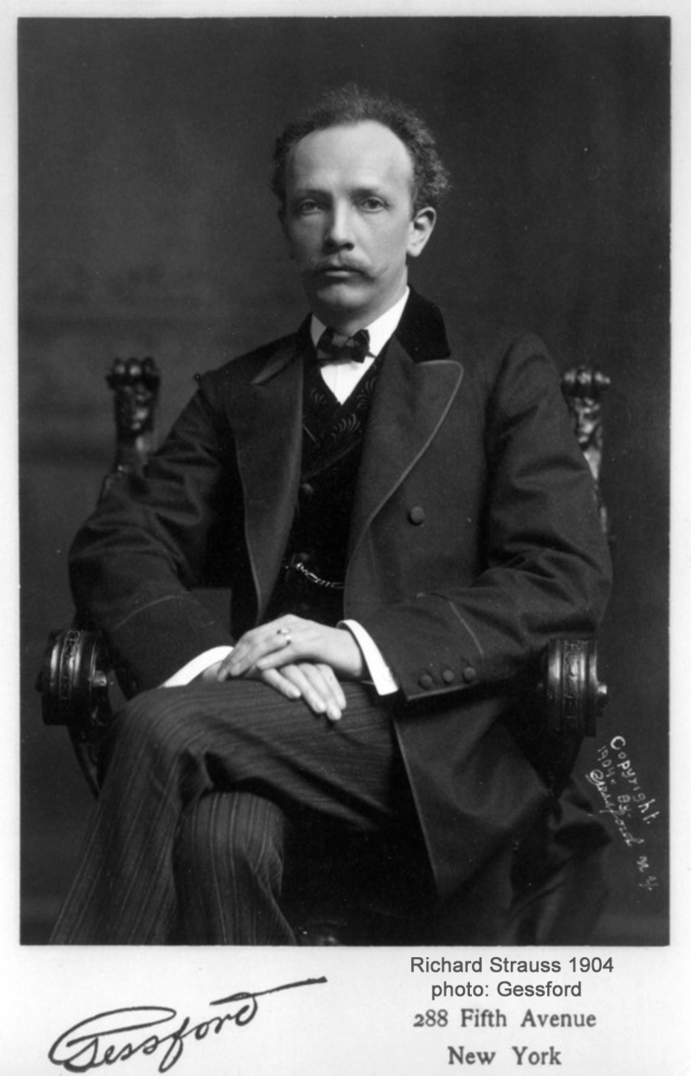 Photograph of Strauss taken in New York during his US tour that year.